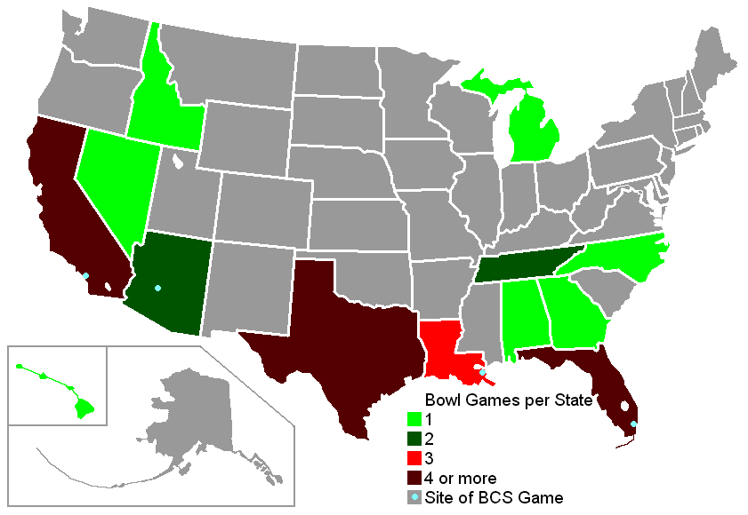 Number of bowl games per state during the 2004–05 NCAA football bowl season.